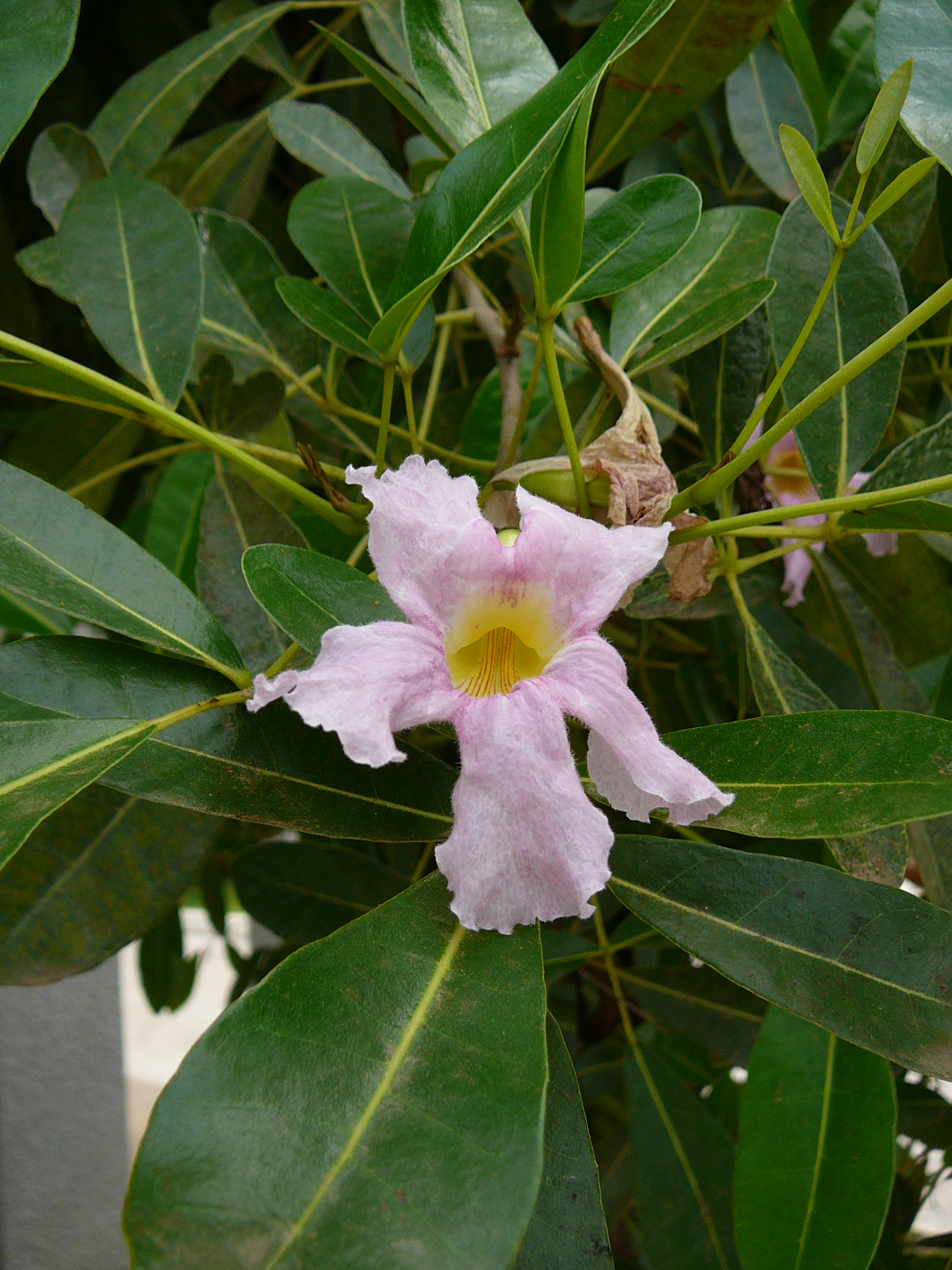 Rosy Trumpet Tree, Pink poui, Pink Tecoma tree